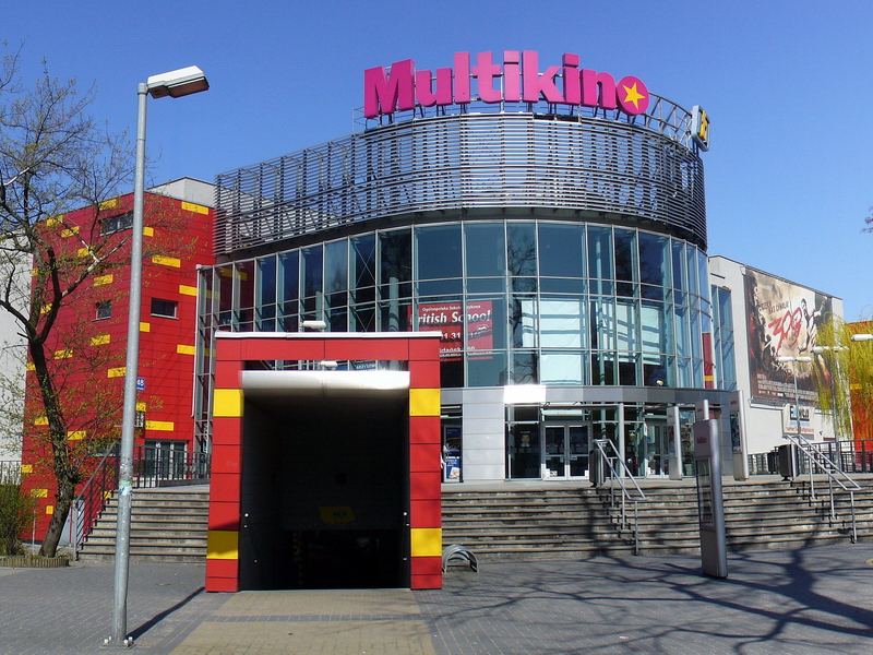 Multikino - cinema in Bydgoszcz